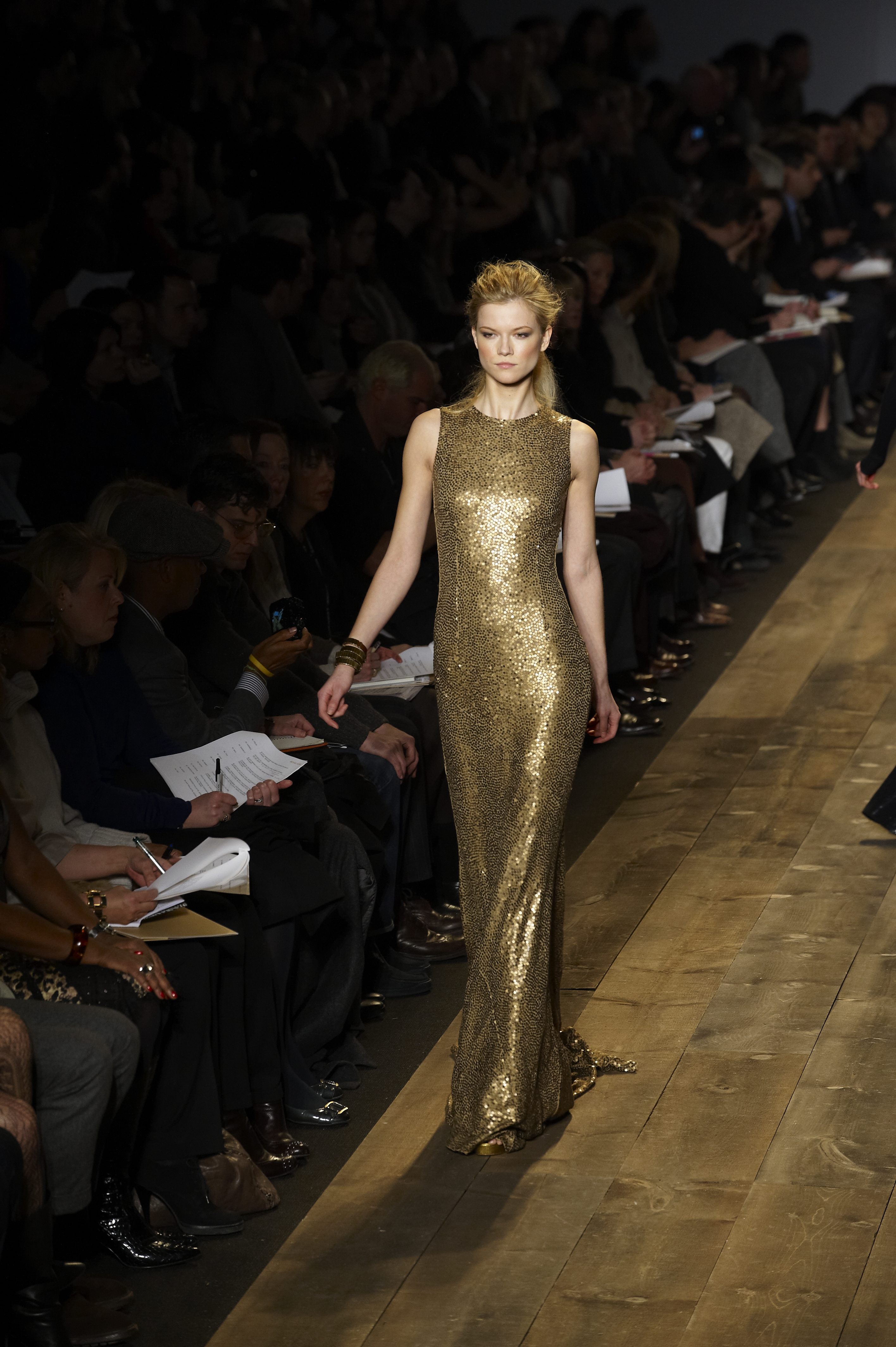 Fashion Designer, Michael Kors model struck the runway wearing this gold dress.